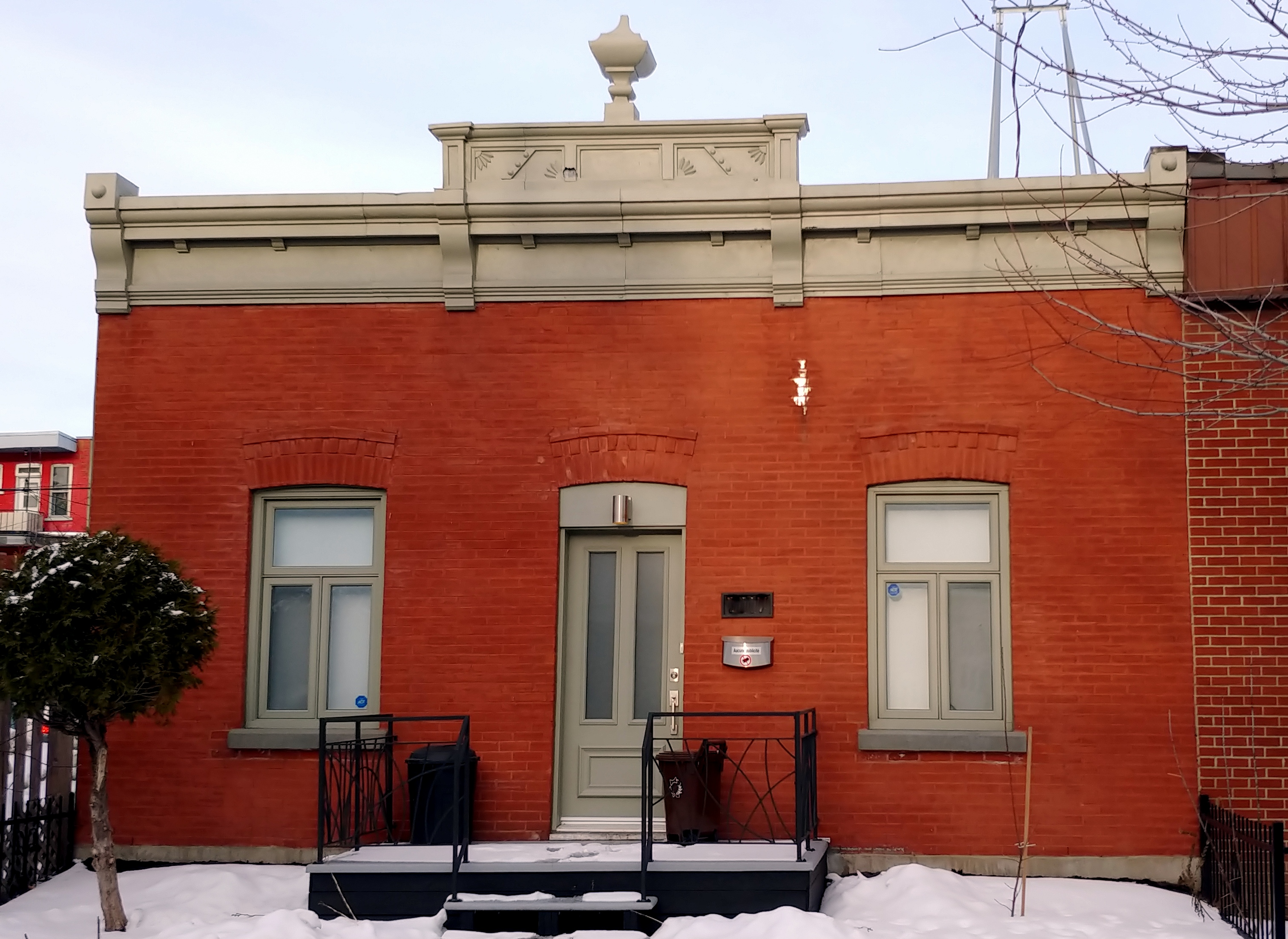 Shoebox Style House in Montreal, Quebec, Canada